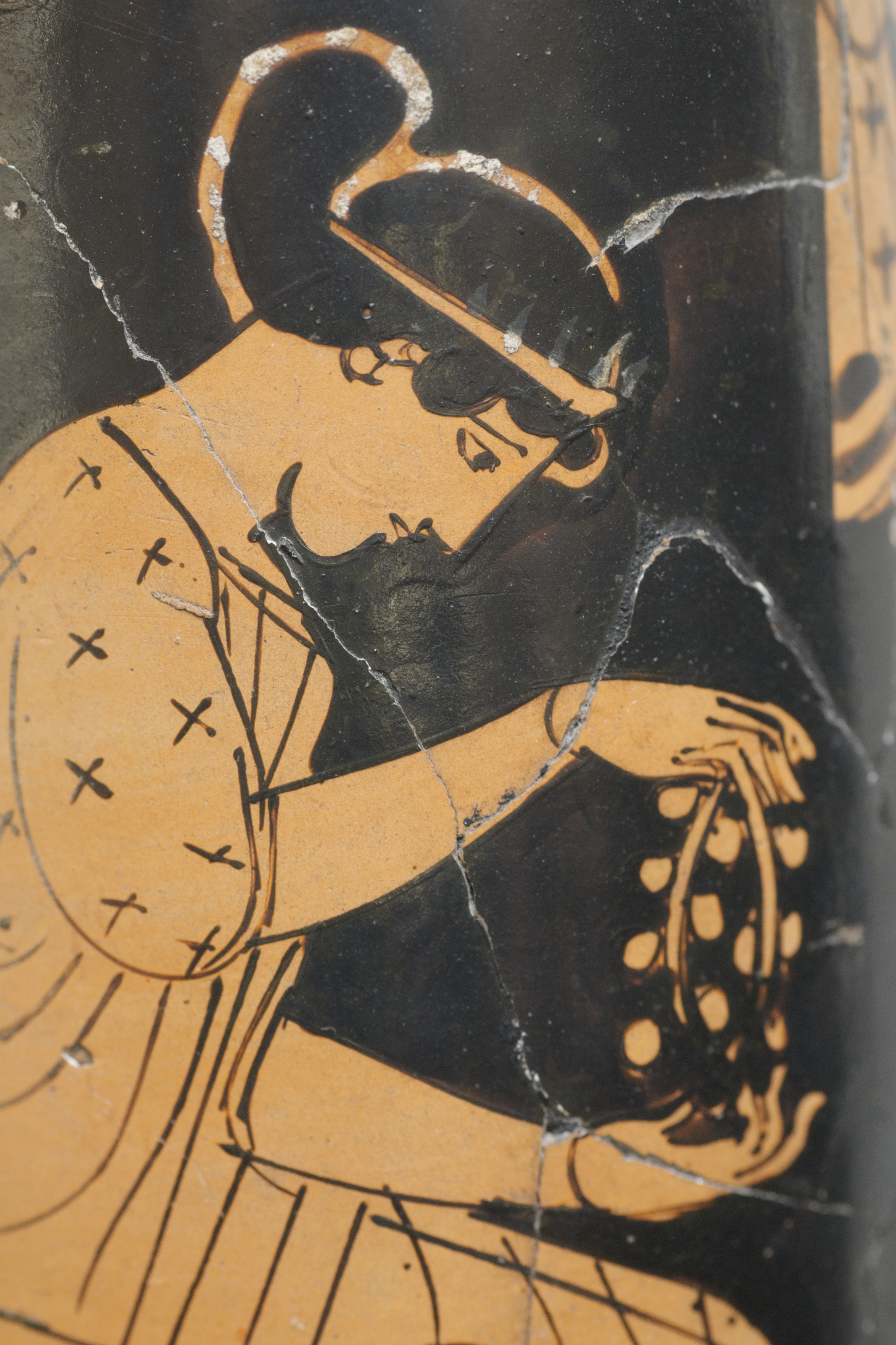 Woman seated to the right with a wreath. Detail from an Attic red-figure alabastron, 500–450 BC.